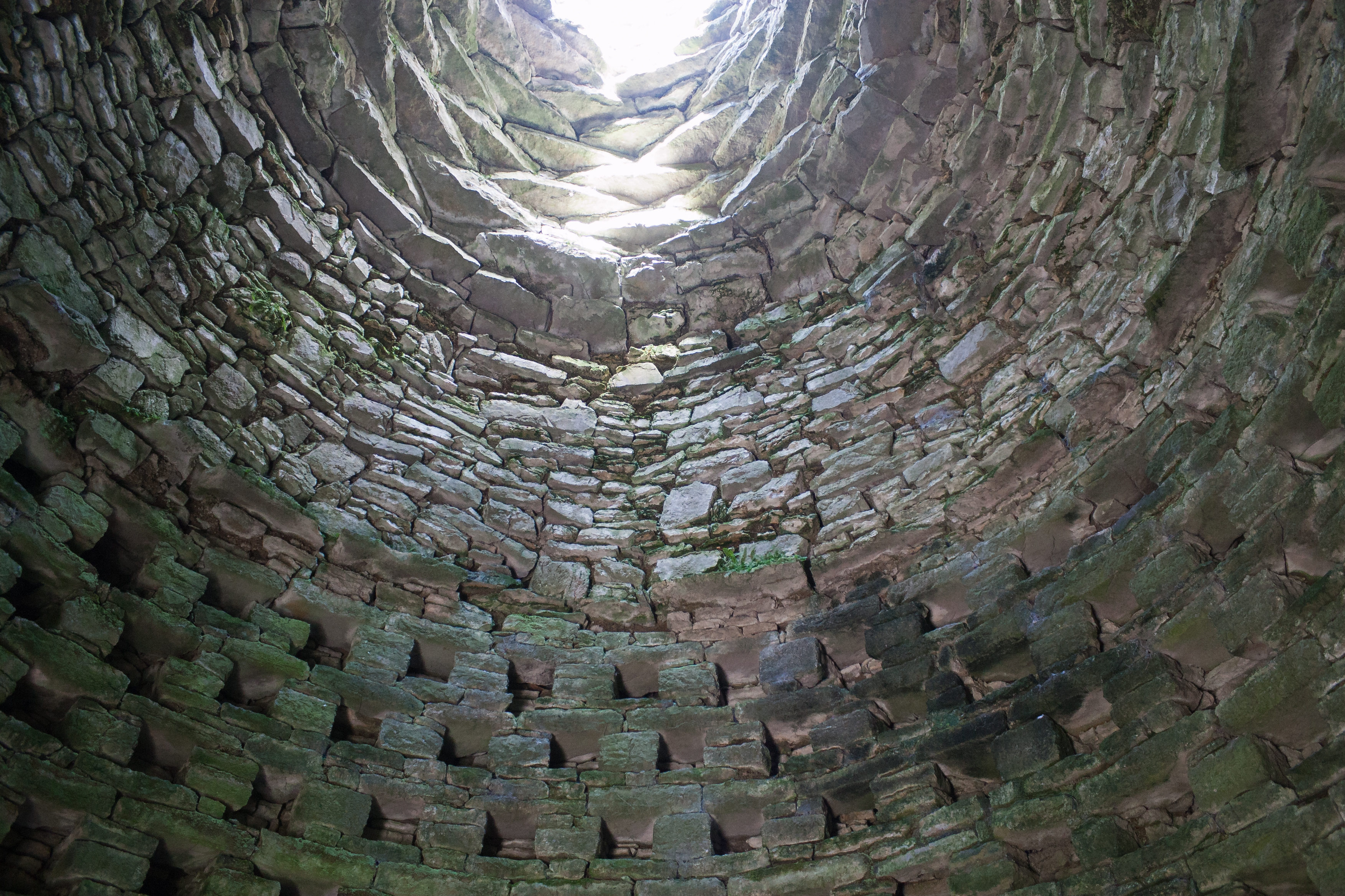 Nesting boxes and circular opening at the top of the columbarium tower (dovecote).